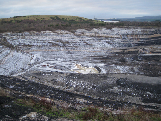 South side of Newbridge ball clay quarry By Bovey Basin standards this is a medium-sized quarry. The lagoon in the floor may coincide with that shown on OS Explorer 110. The hill in the background is a spoil heap by Brocks Farm across the River Bovey; I have yet to discover its name if it has one; indications are that it is still active. To its right is the Candy tile factory at Heathfield, mostly in SX8375. Strata, centre right, appear to be being quarried while tipping of spoil is happening towards the bottom of the photo.